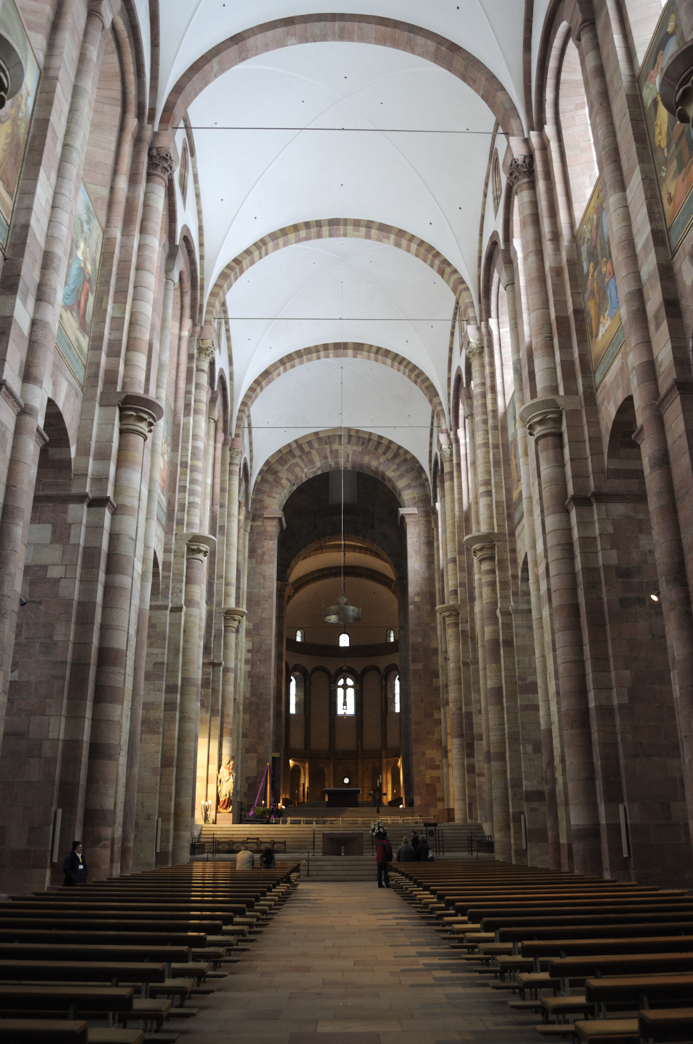 Picture taken in Speyer. Interior of the Speyer Cathedral.